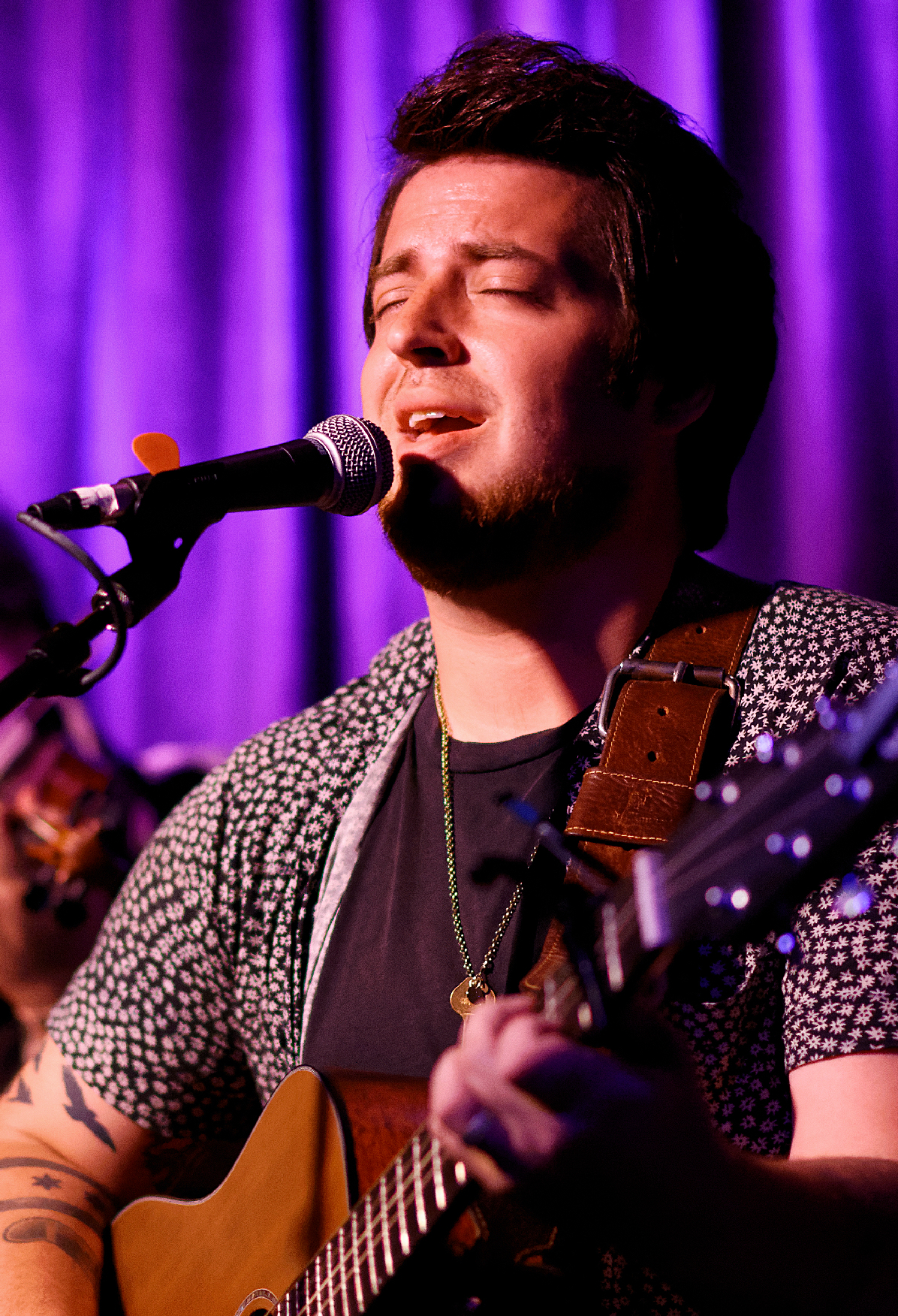 Lee DeWyze performing live at the Hotel Cafe in Hollywood, Los Angeles, California, on Sunday August 7th, 2016.